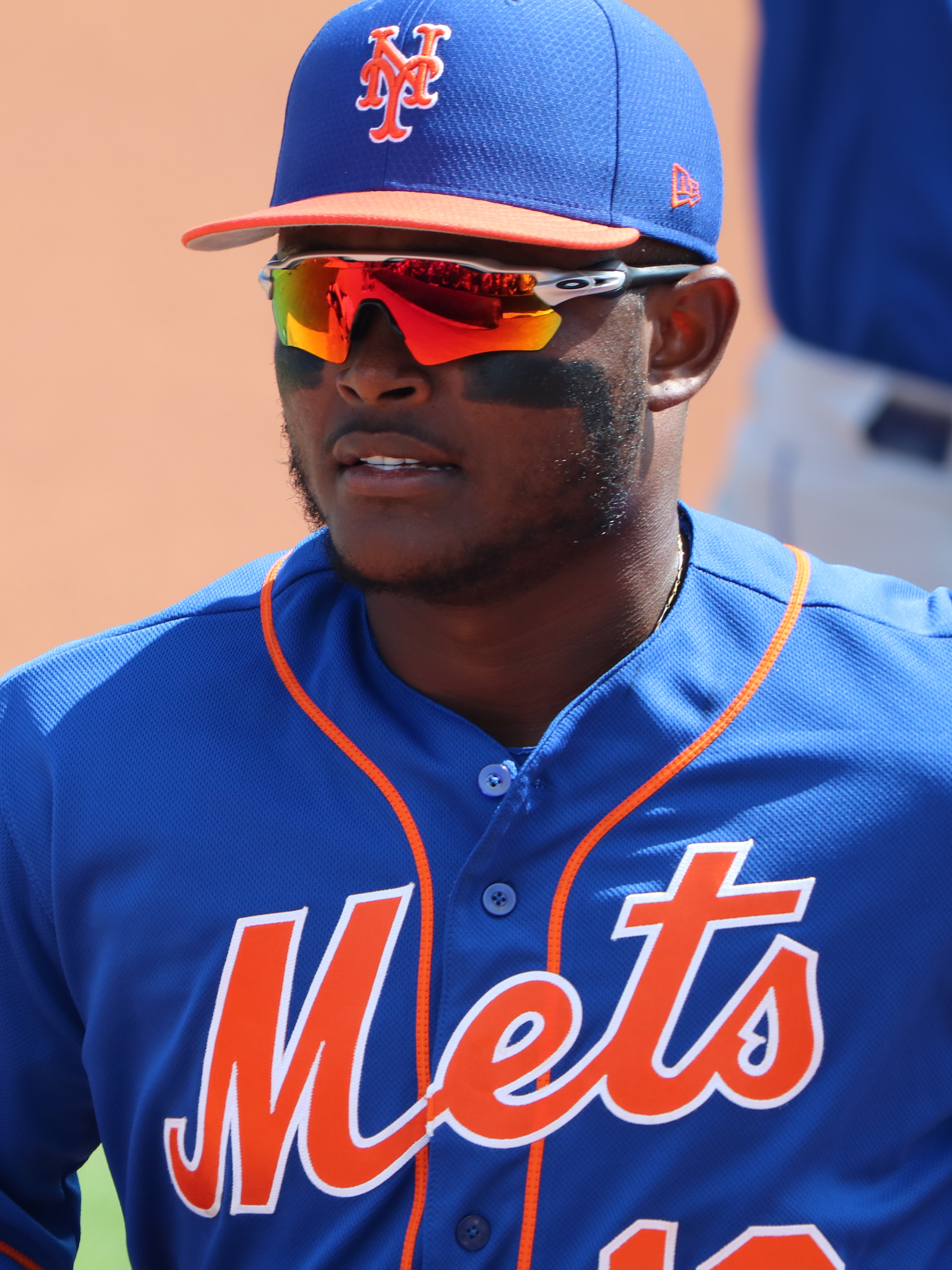 Dilson Herrera in warmups, March 3, 2019